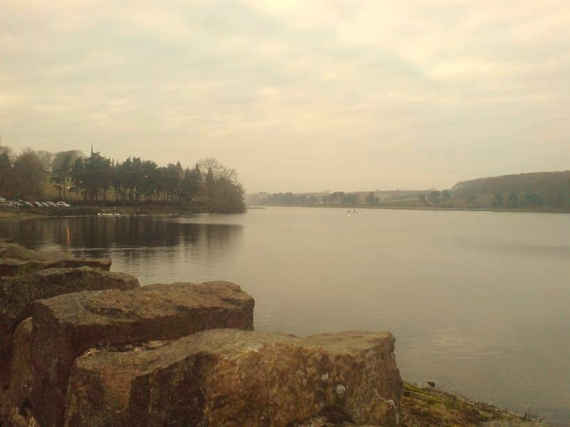 A photo of Thornton Reservoir taken on 17/11/2007 by cls14.